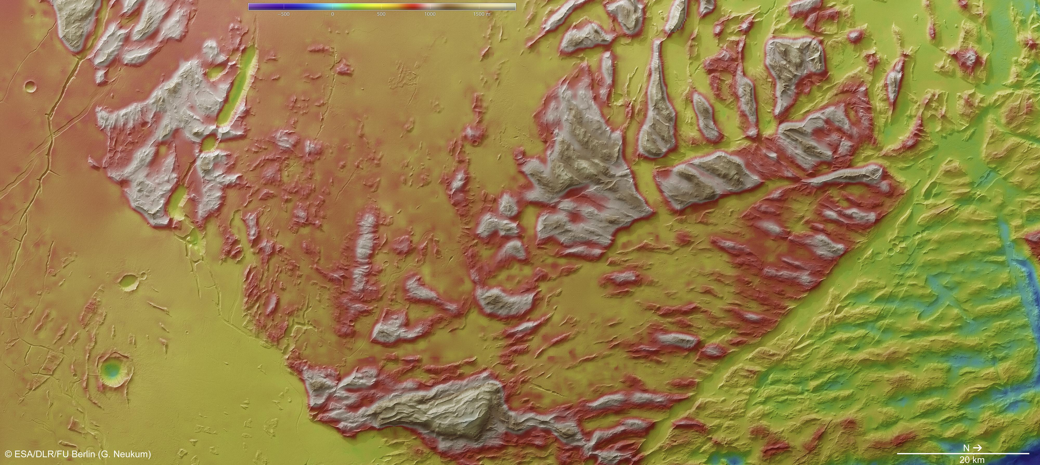 This colour-coded overhead view is based on an ESA’s Mars Express High Resolution Stereo Camera digital terrain model of the Sulci Gordii region of Mars, which lies about 200 km east of Olympus Mons. Sulci Gordii was imaged on 23 January 2013 (orbit 11531), with a ground resolution of approximately 31 m per pixel. Credit: ESA/DLR/FU Berlin (G. Neukum), CC BY-SA 3.0 IGO Copyright Notice: This work is licenced under the Creative Commons Attribution-ShareAlike 3.0 IGO (CC BY-SA 3.0 IGO) licence. The user is allowed to reproduce, distribute, adapt, translate and publicly perform this publication, without explicit permission, provided that the content is accompanied by an acknowledgement that the source is credited as 'ESA/DLR/FU Berlin’, a direct link to the licence text is provided and that it is clearly indicated if changes were made to the original content. Adaptation/translation/derivatives must be distributed under the same licence terms as this publication. To view a copy of this license, please visit